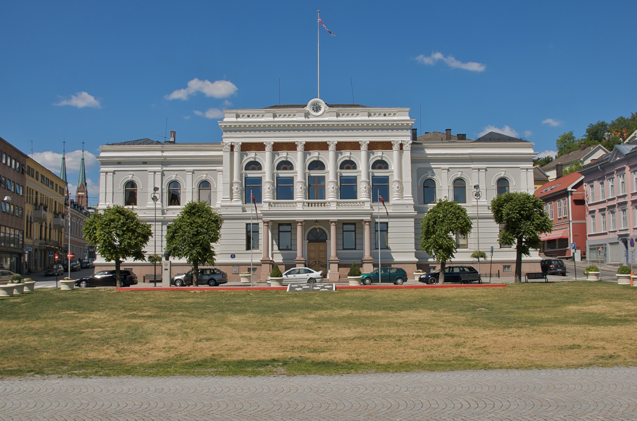 The town hall in Skien, Norway